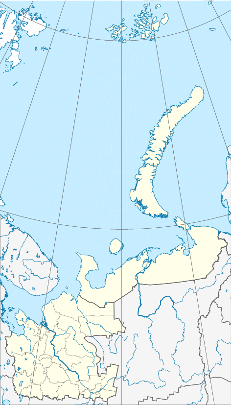 Administrative map of Arkhangelsk Oblast, including Nenets Autonomous Okrug, Novaya Zemlya and Franz Josef Land. Projection: Equidistant conic projection Longitude and latitude of the projection center: 50 / 65 Two standard parallels: 60 / 75 Projection and coords for GMT: -JD50/65/60/75/8 -R37/60/85.8/80.4r Tools: GMT, Inkscape This map may be incomplete, and may contain errors. Don't rely solely on it for navigation.